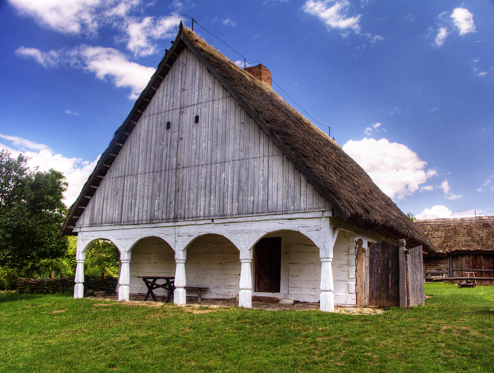 KUJAVIAN-DOBRZYN Etnographic Park in Kłóbka